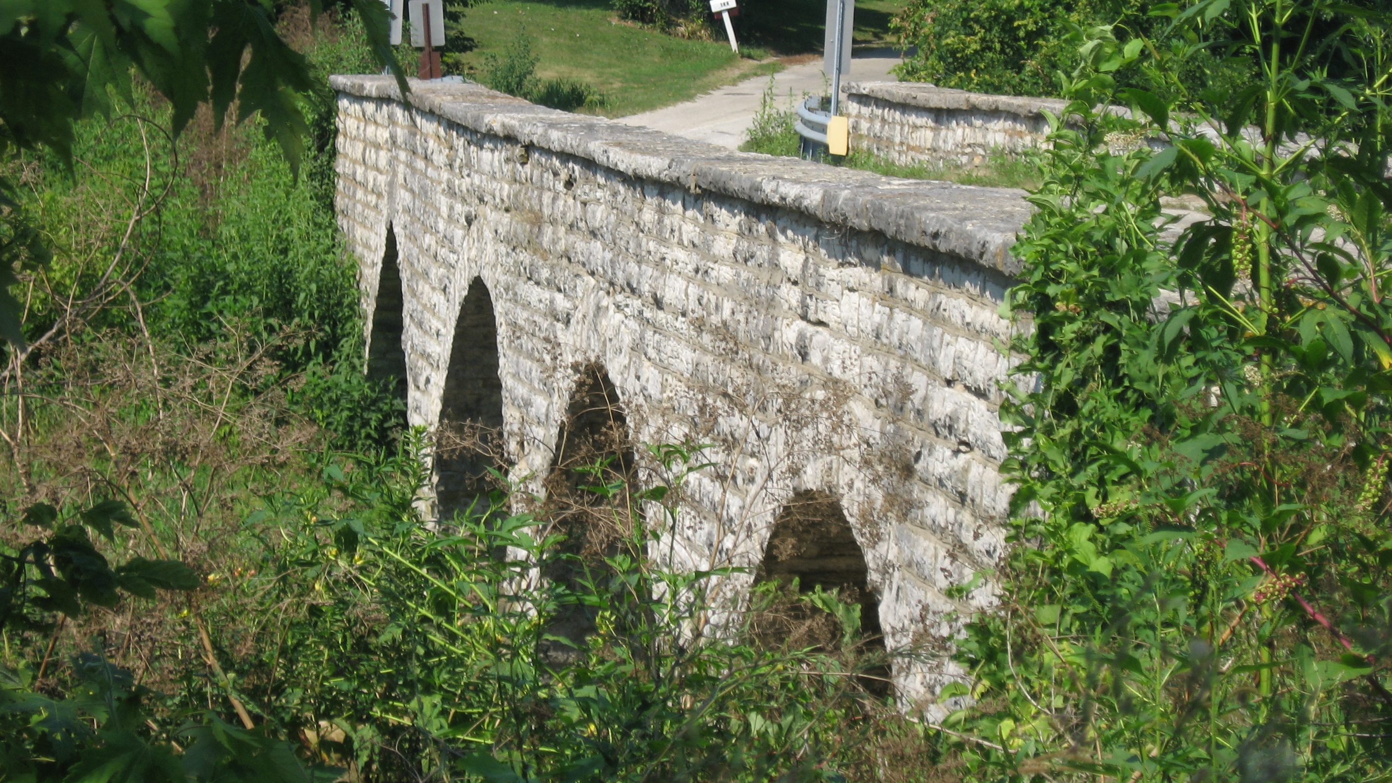 Southern (downstream) side of the Middletown Bridge, which carries the old route of Michigan Road over Conn's Creek just northwest of Middletown in Liberty Township, Shelby County, Indiana, United States. Built in 1903, it is listed on the National Register of Historic Places.